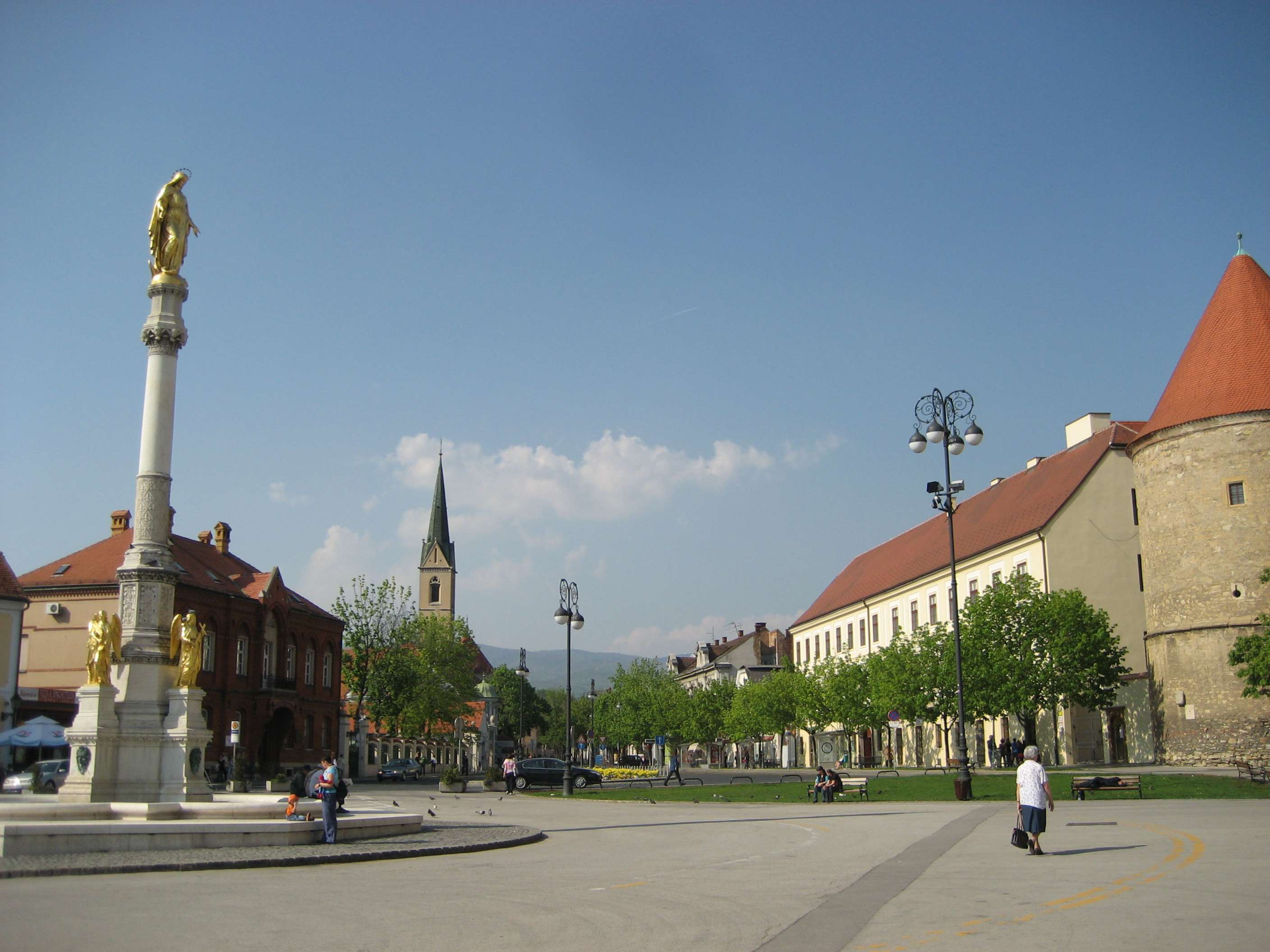 Kaptol, Zagreb